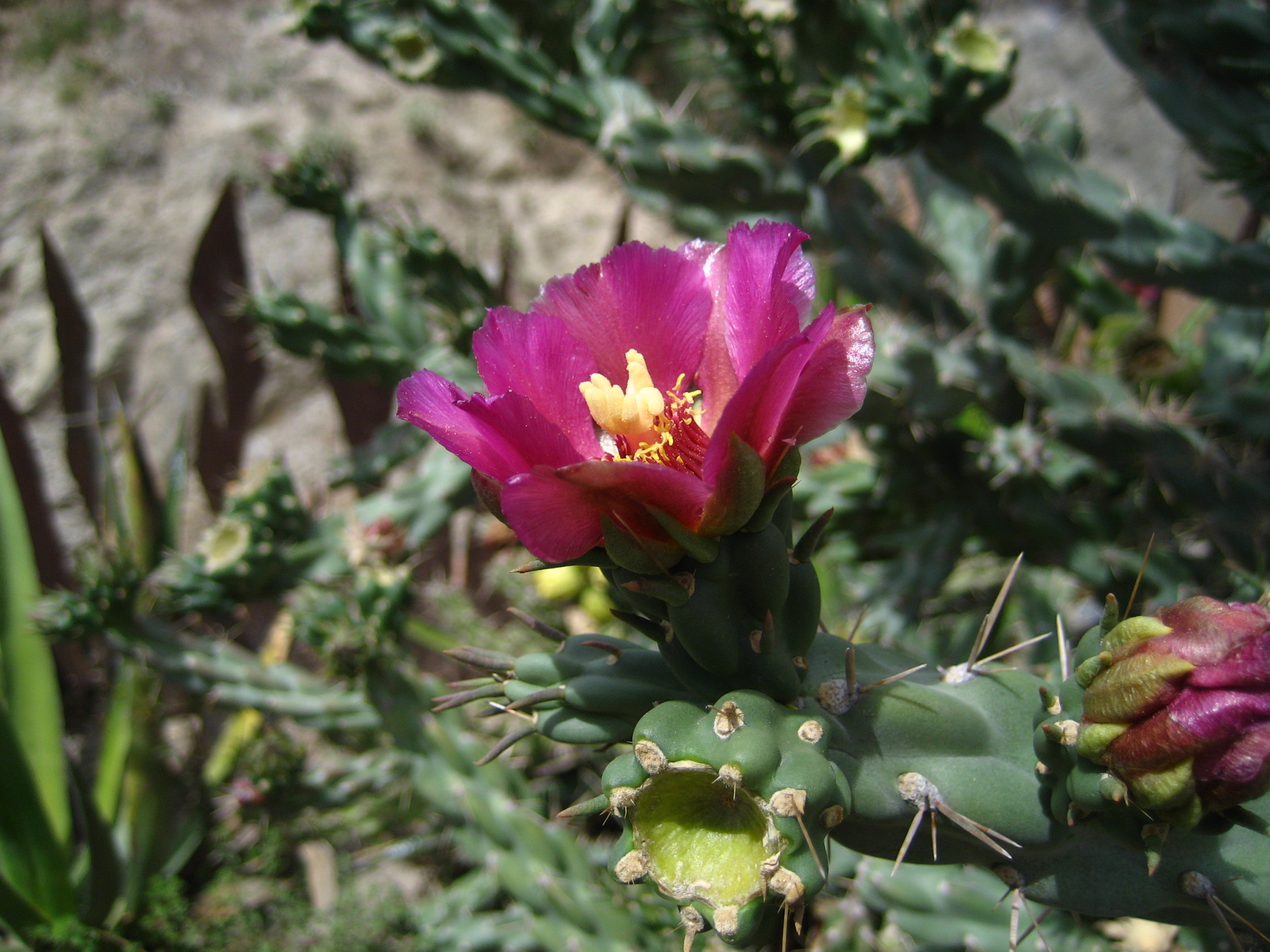 Cylindropuntia imbricata cactus bloom - in Coahuila state.